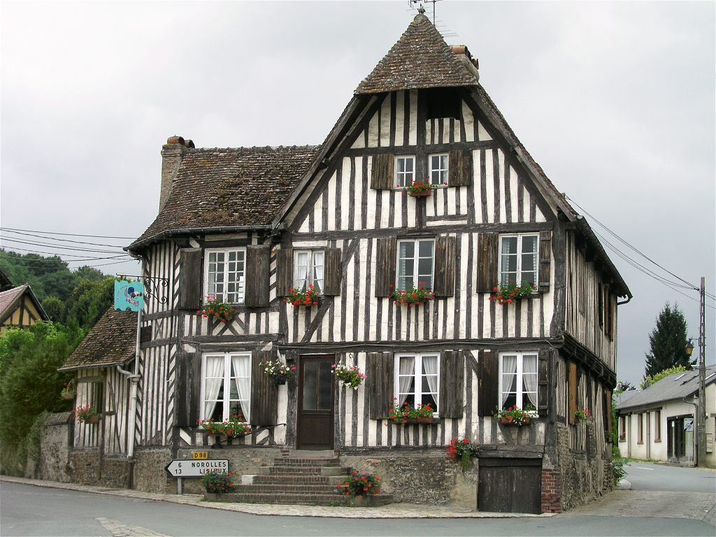 Timber-framed house in Blangy-le-Chateau, Normandie, France, photo 2007